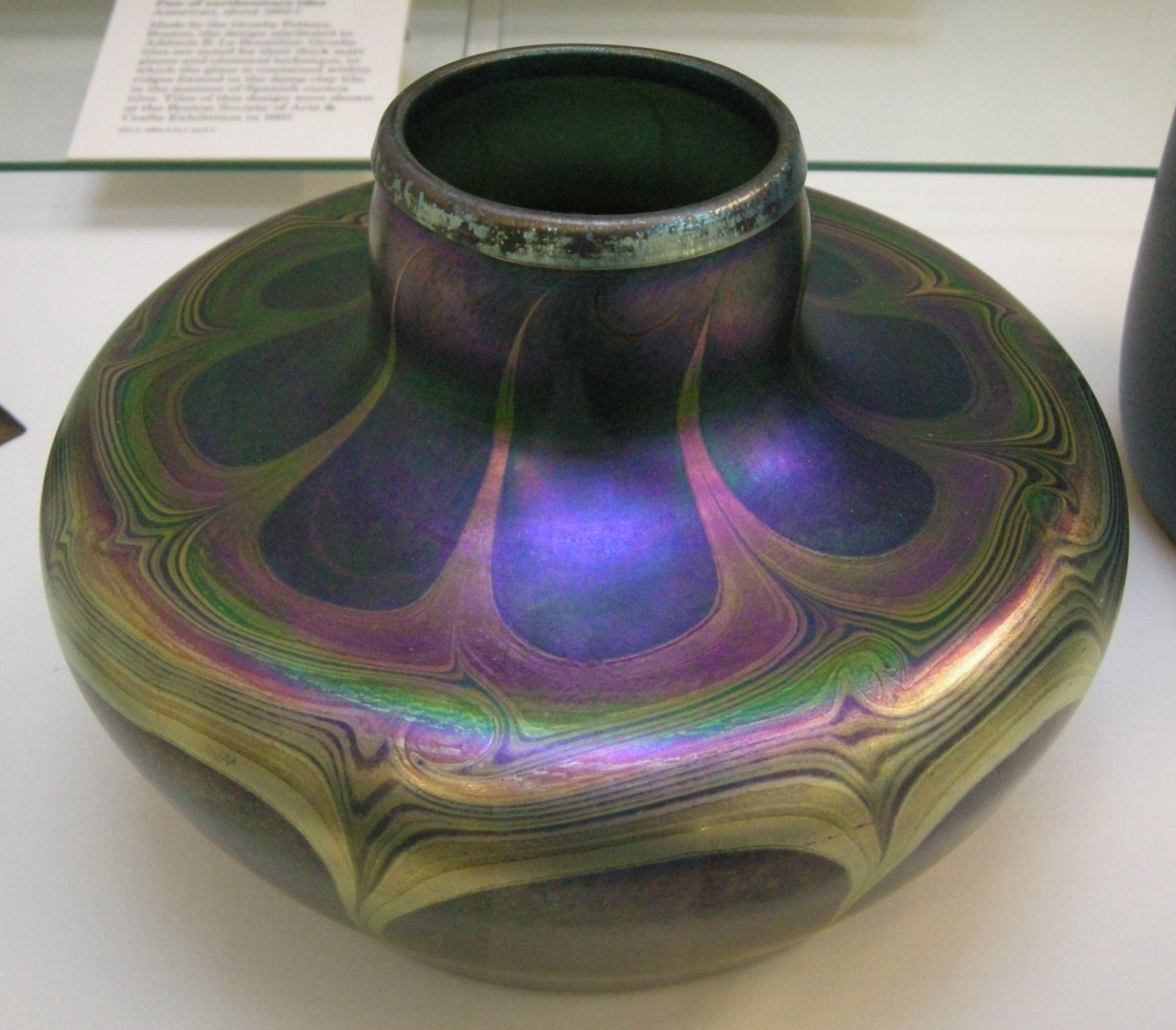 Louis comfort tiffany, vaso, 1896 ca.